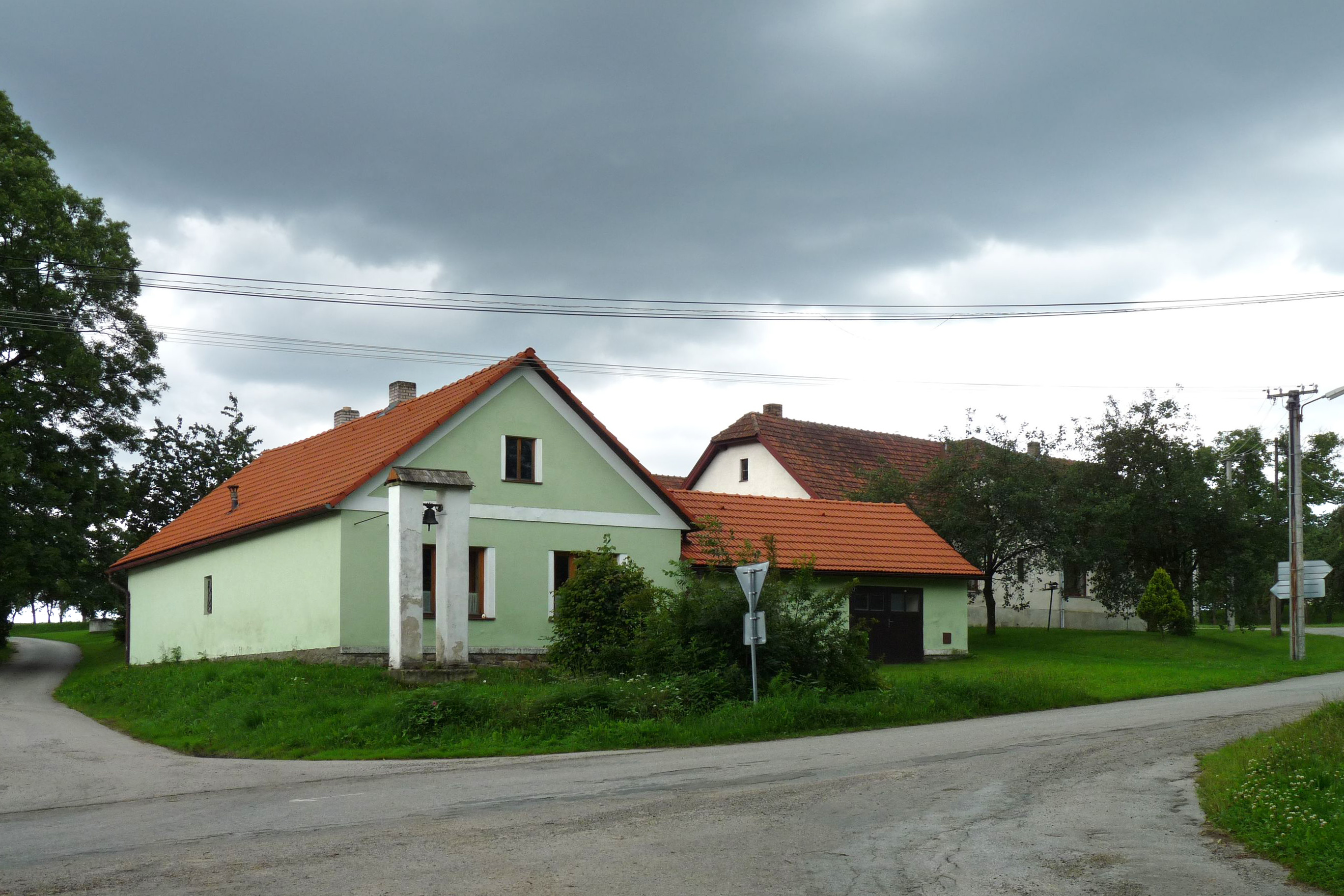 House No 7 in the village of Myslov, Pelhřimov District, Czech Republic.